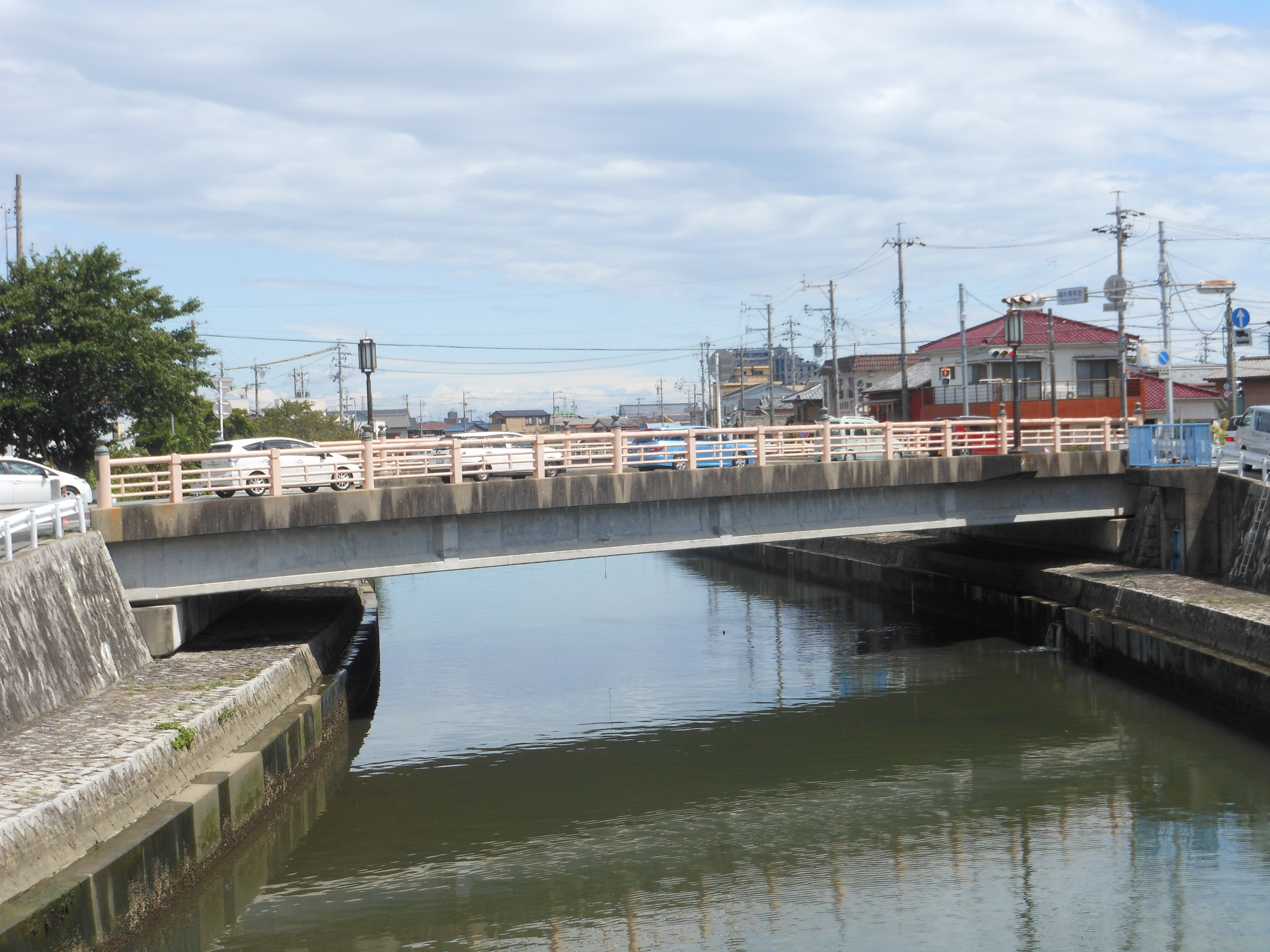 This bridge laid in the Seta river, Ise, Mie, Japan. This bridge is one of symbols of Ise.